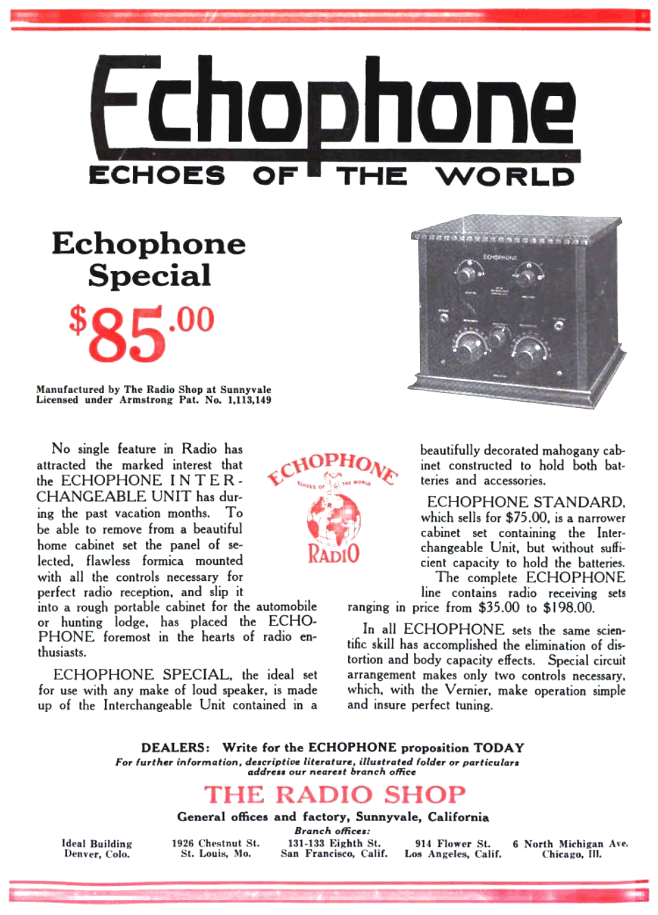 Echophone was the primary brand name applied to radio receivers produced by The Radio Shop of Sunnyvale, California in the early 1920s.